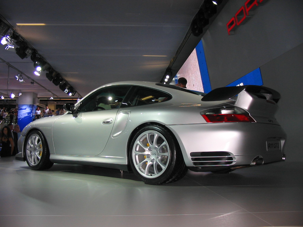 Porsche 996 GT2 (Rearview). Photo taken at IAA.